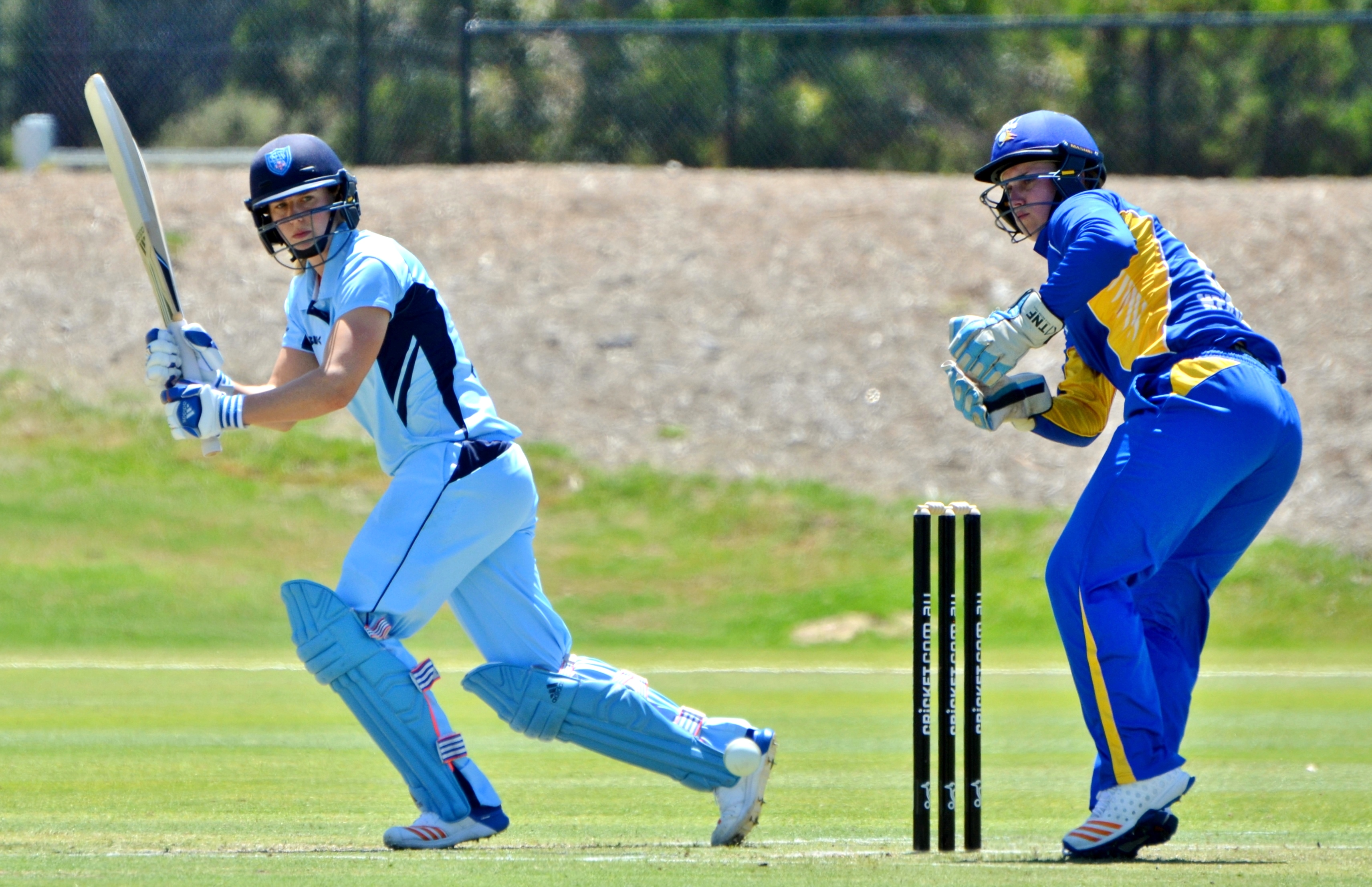 New South Wales Breakers all-rounder Ellyse Perry on her way to a total of 127 not out against the ACT Meteors, in a WNCL top of the table clash at Murdoch University Sports Oval in Perth. The wicket-keeper is Erica Kershaw.